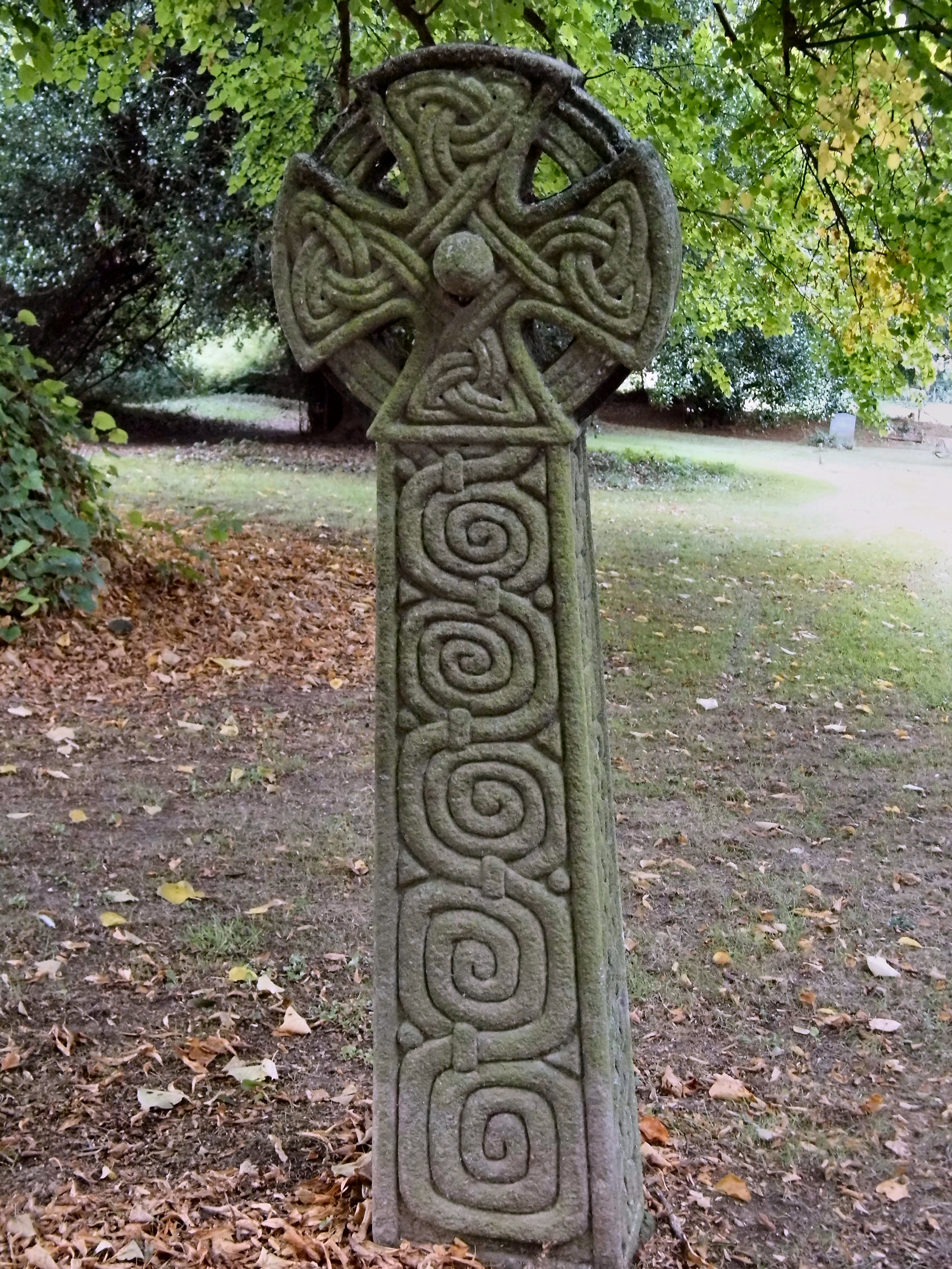 Cross in churchyard of Church of St. Peter Wikidata has entry Q29506851 with data related to this item.